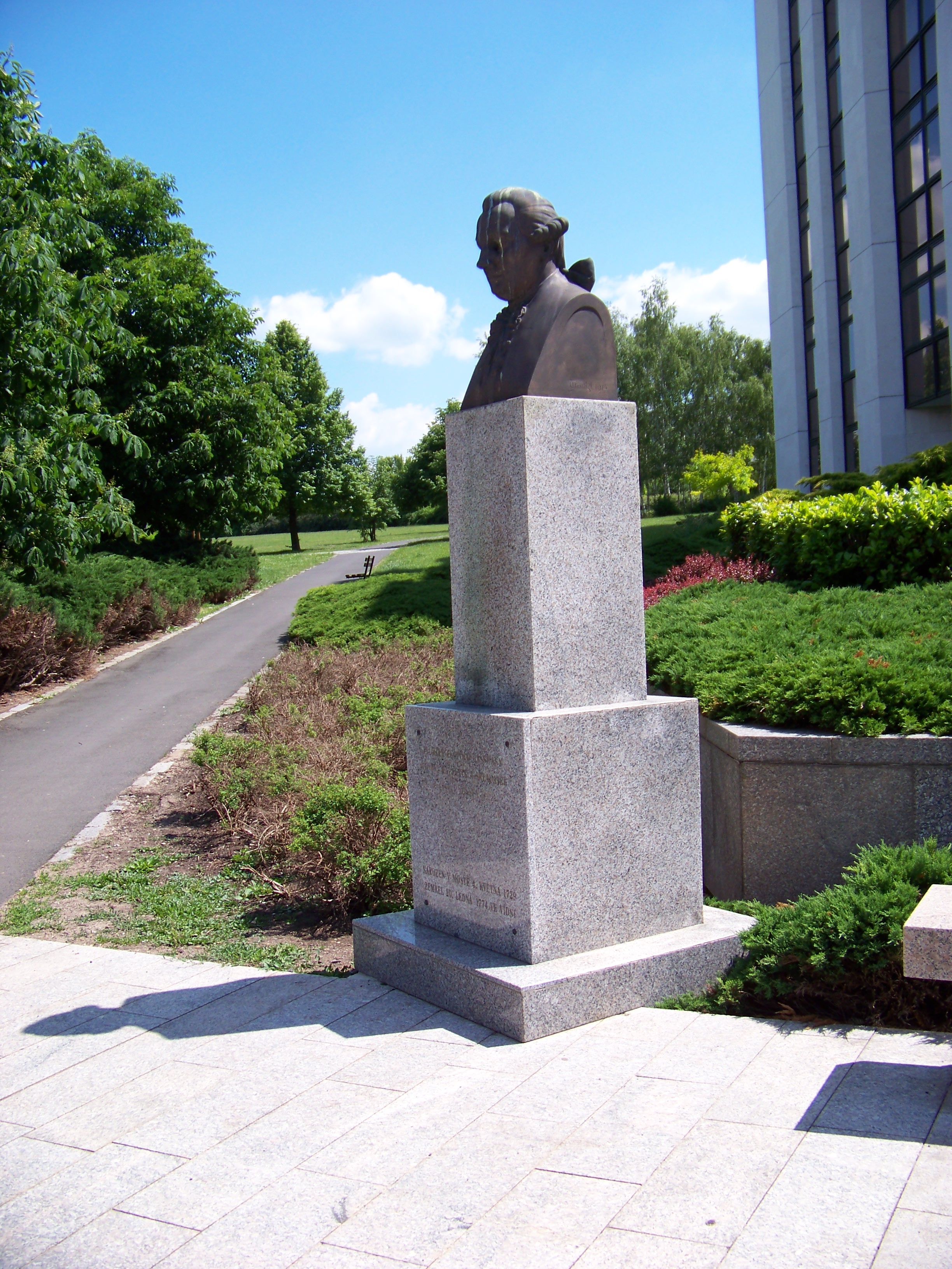 Most, Most District, Ústí nad Labem Region, Czech Republic. A bust of Florian Leopold Gassmann between Radniční street and the city theatre.